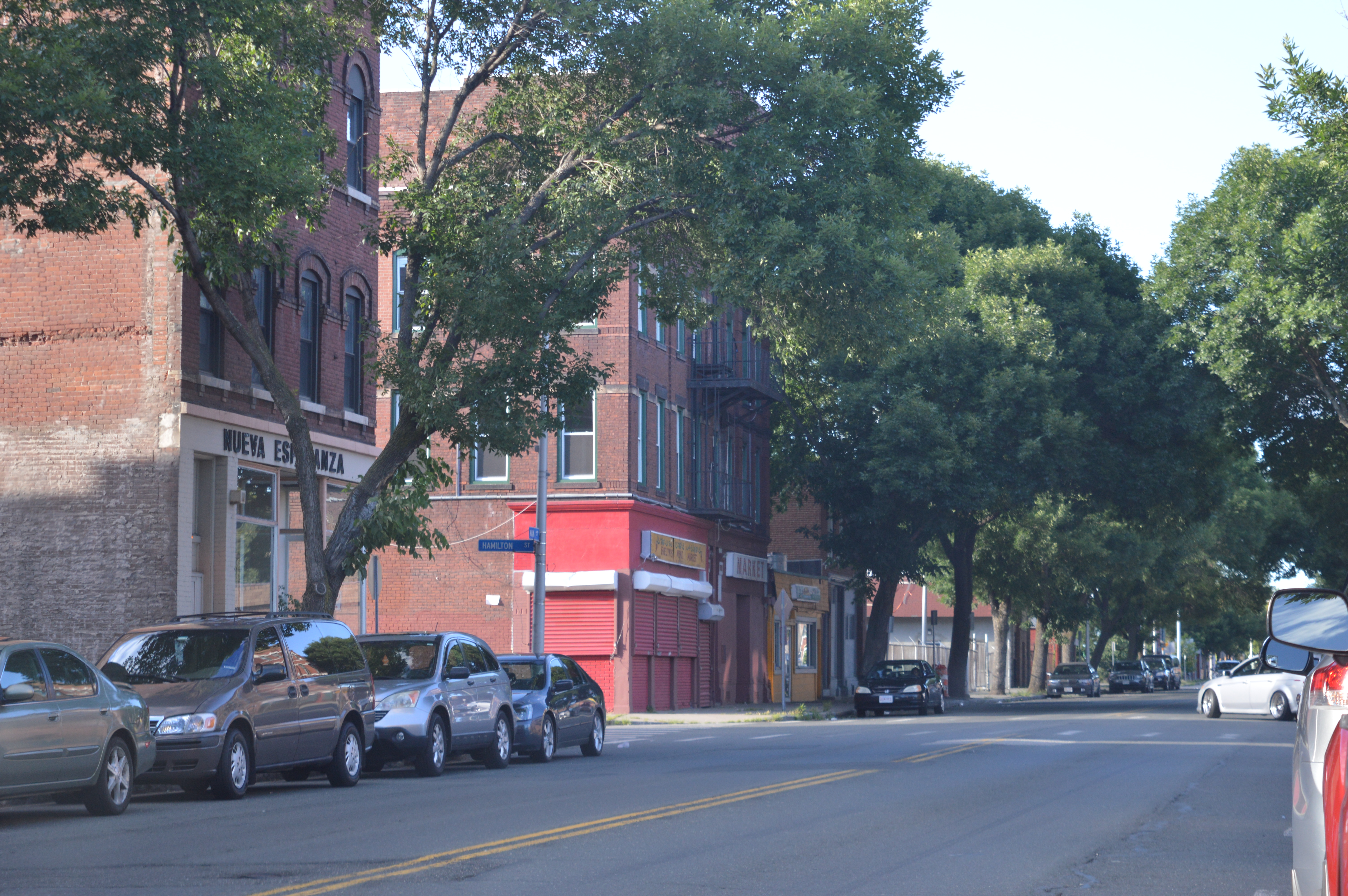 A view down Main Street in the South Holyoke neighborhood of Holyoke, Massachusetts, at the left may be seen the offices of fair housing non-profit and cultural center, Nueva Esperanza.